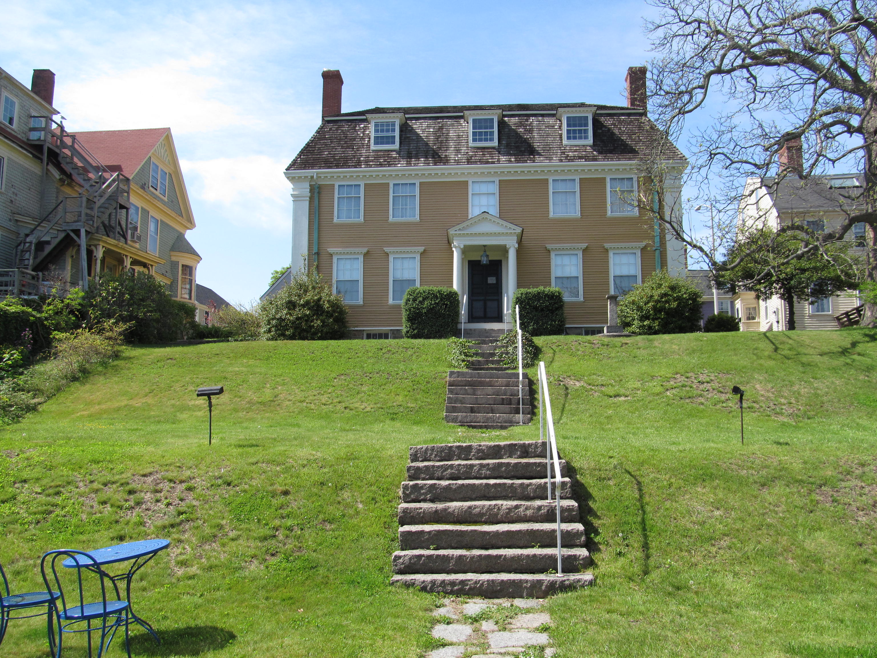 House in Gloucester, MA, with outdoor staircase and old garden furniture